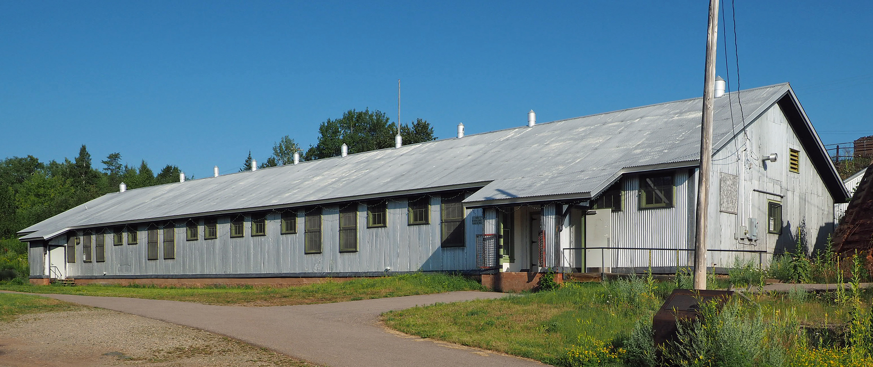 Miners' Dry House, Pioneer Mine, 401 N Pioneer Rd, Ely, Minnesota, USA. Viewed from the southeast.